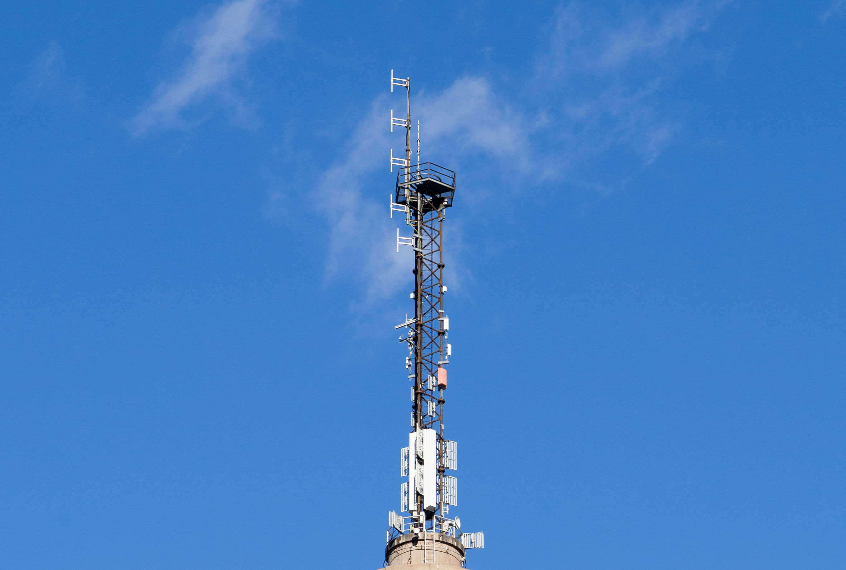 Inter-city relay tower of Finnish state broadcaster Yle, located next to the main Yle studio facilities in Pasila, Helsinki. This digital zoom shows what appear to be vertically polarized FM broadcast antennas on the mast atop the tower.